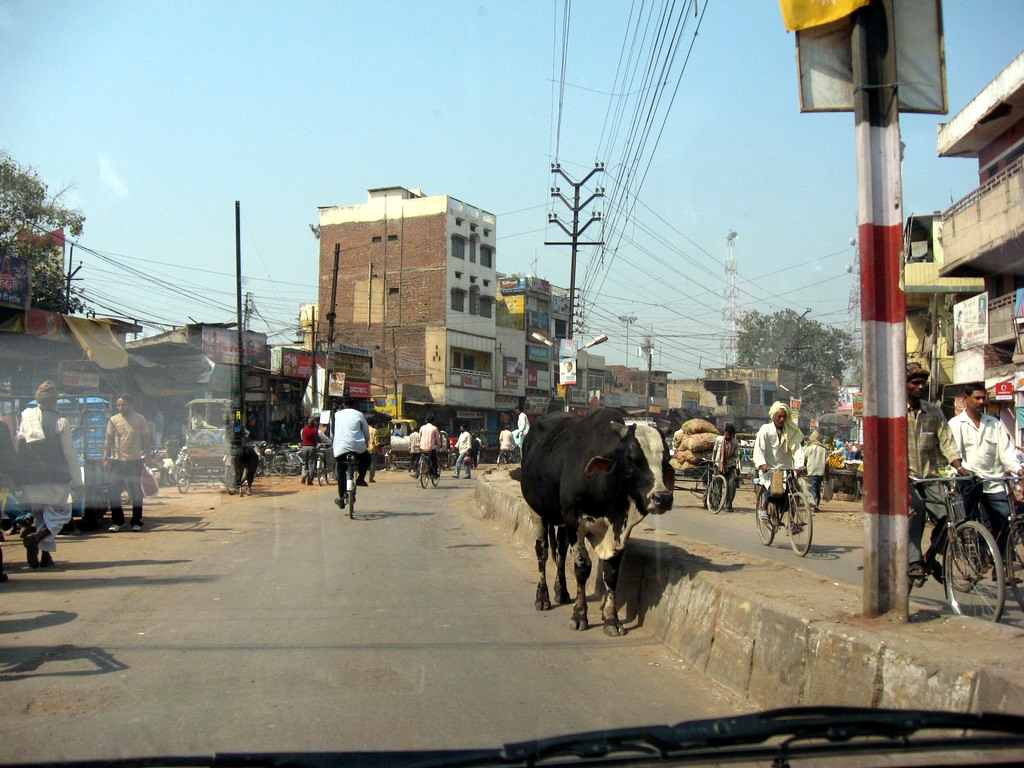 Historic and Busy Grand Trunk Road passing Mughalsarai Market, UP, India.